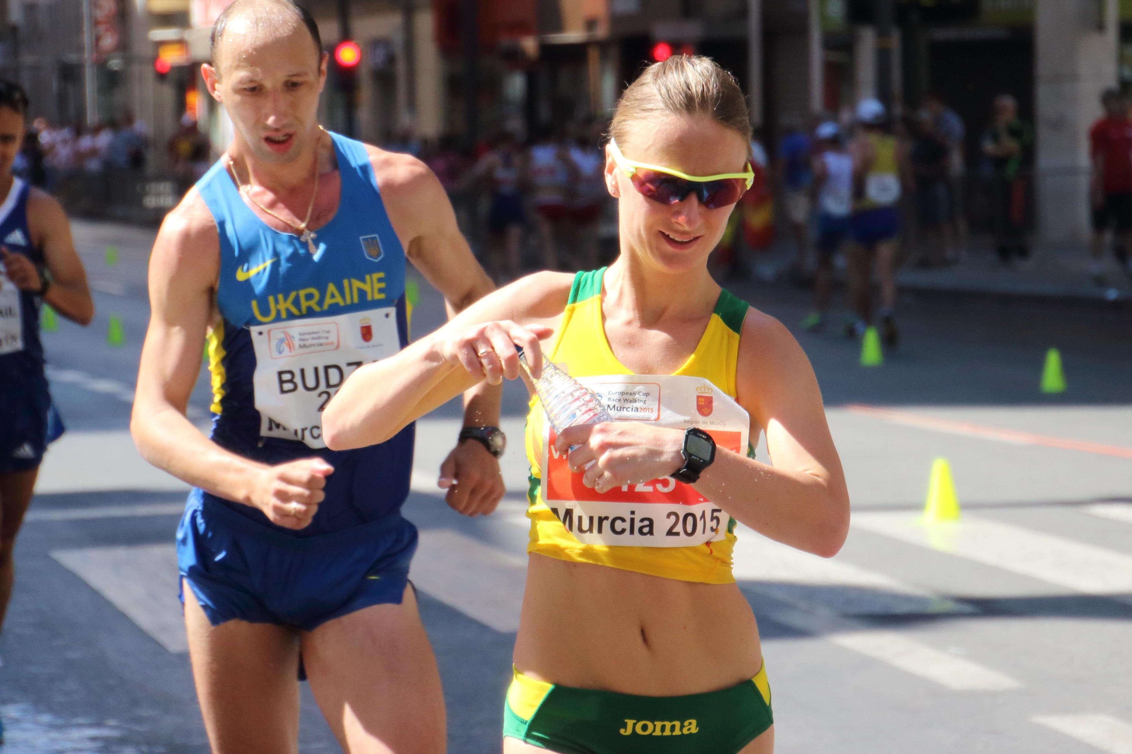 Brigita Virbalyté, lithuanian race walker, in the European Cup Race Walking 2015 (Murcia, Spain).